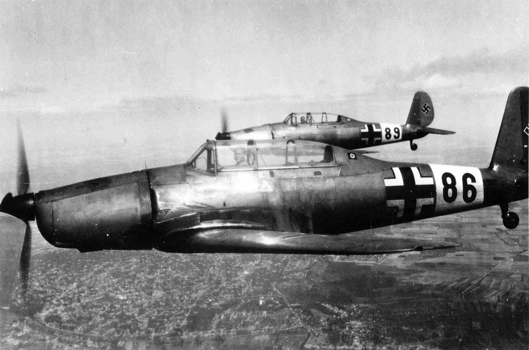 Arado Ar-96.